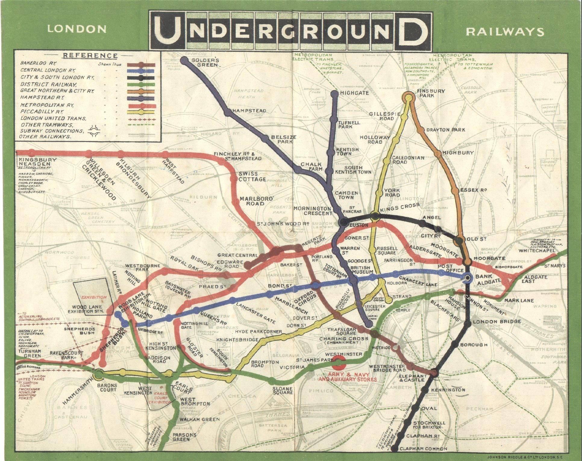 London Underground map from 1908